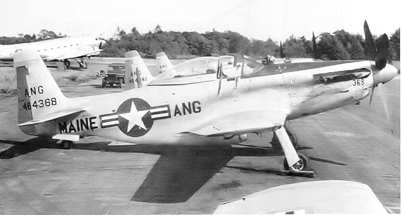 132d Fighter Squadron - North American F-51H-5-NA Mustang 44-64368